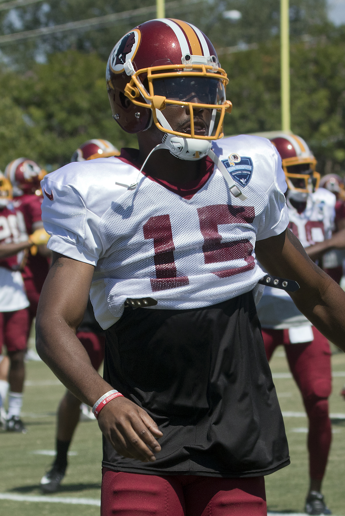 Washington Redskins Richmond Training Camp - NFL Football